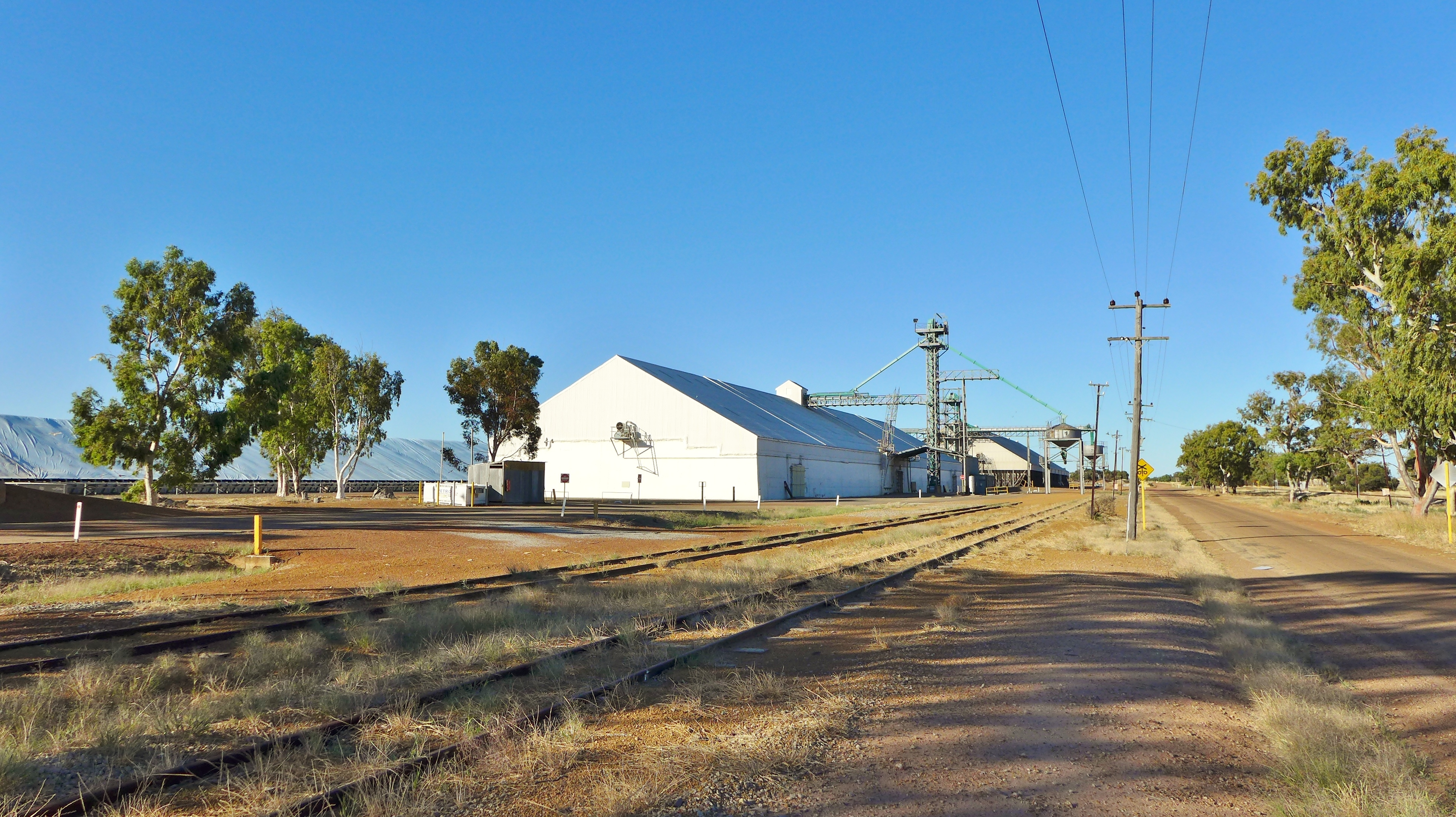 View of the CBH grain receival point in Narembeen, Western Australia.